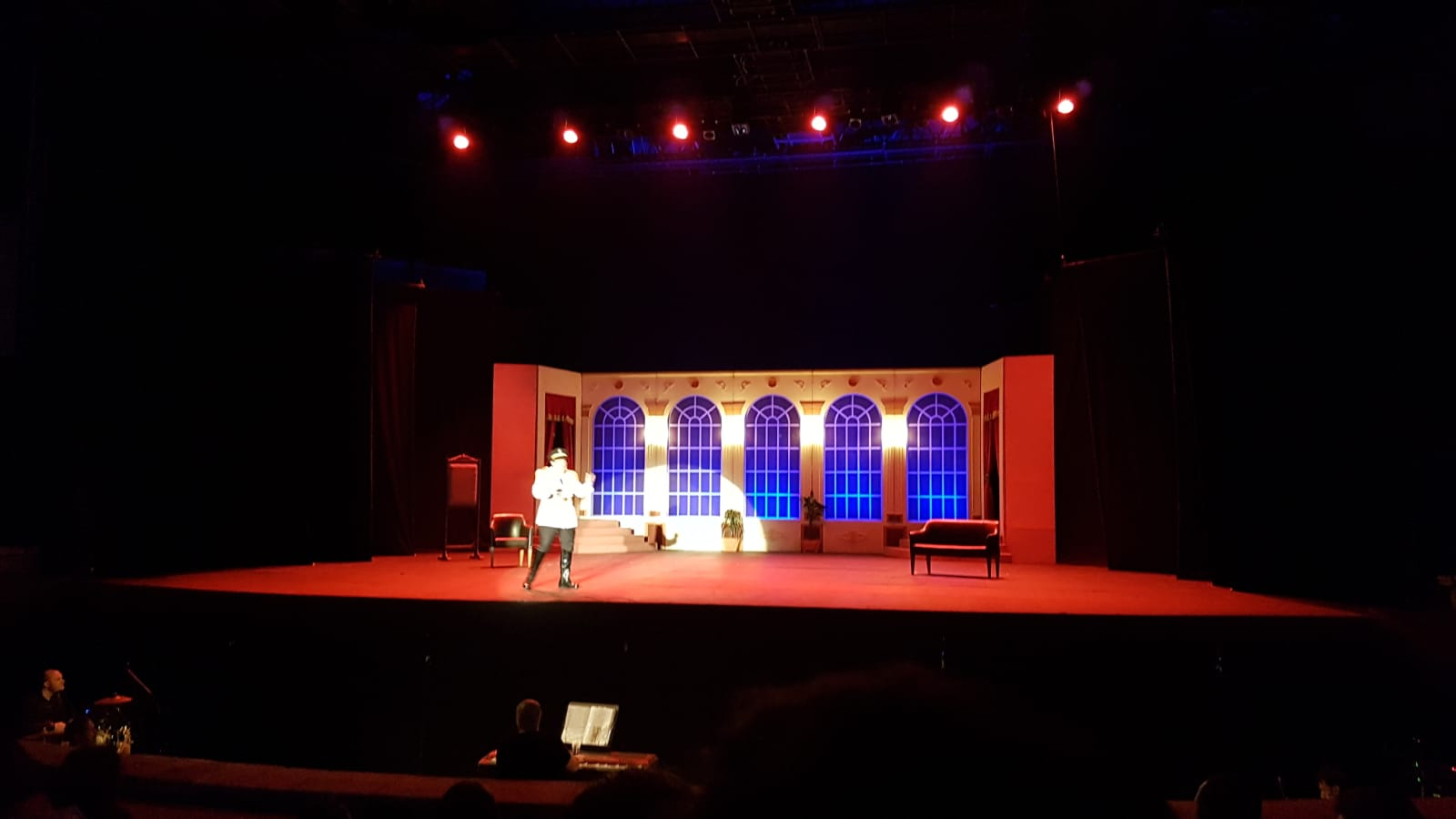 Zihni Göktay performing Cibali Police Station at Harbiye. June 3, 2018.